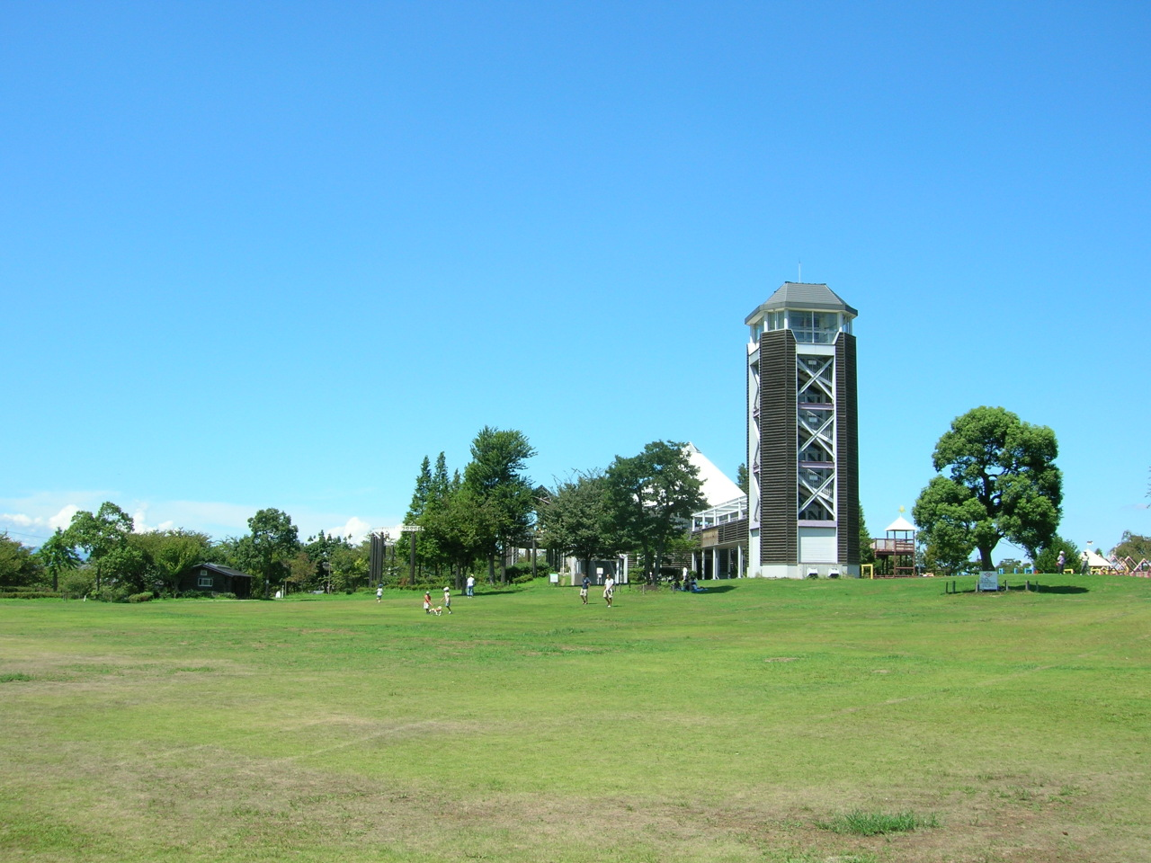 Todagawa Ryokuchi, Minami-chiku (Todagawa green park, south district) Loc: Minato-ku, Nagoya city, Aichi Prefecture, Japan.